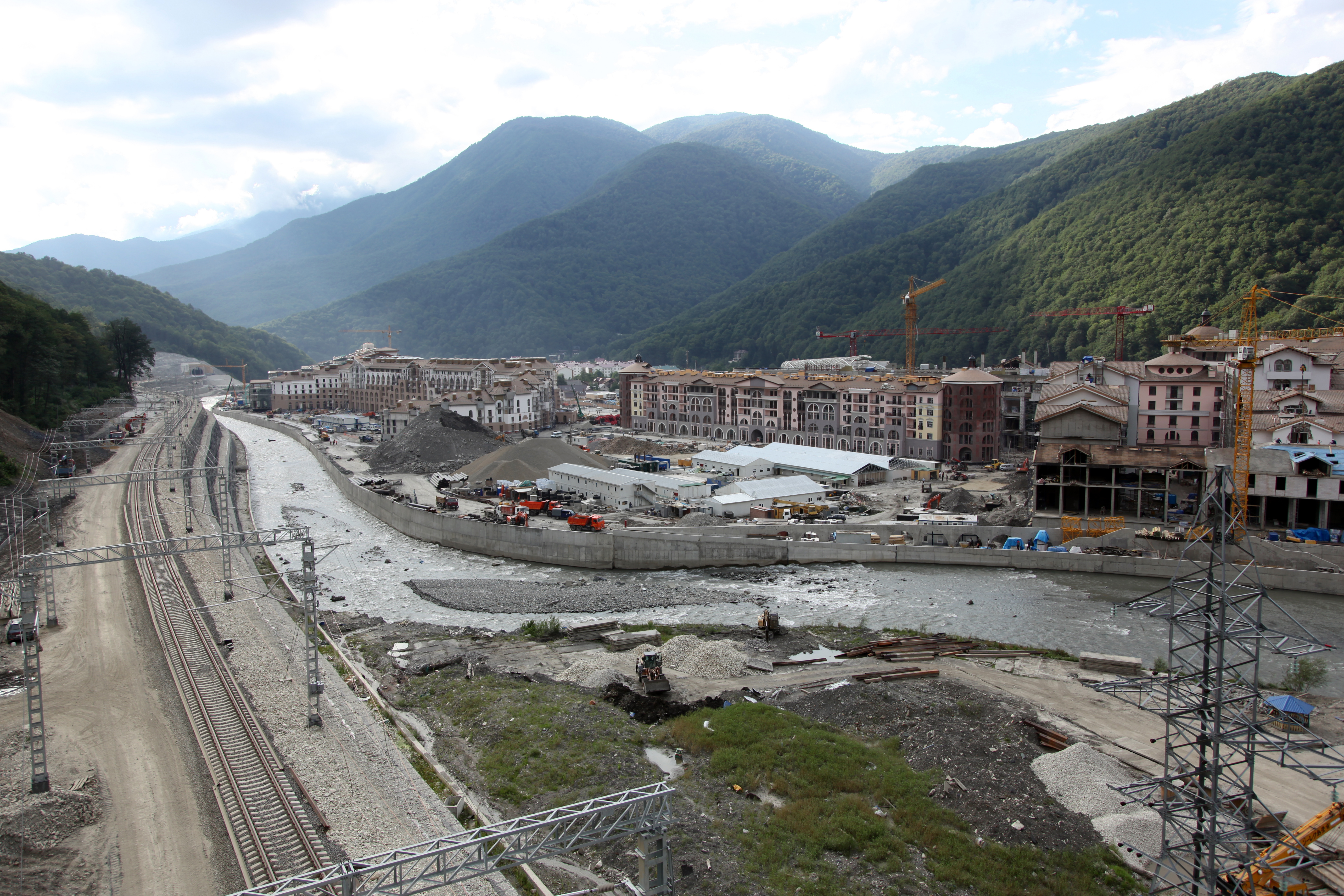 New Hotel Village in Estosadok (Э́стосадо́к), Sochi (Сочи), launch pad for the skiing area Gornaya Karusel (Горная Карусель)